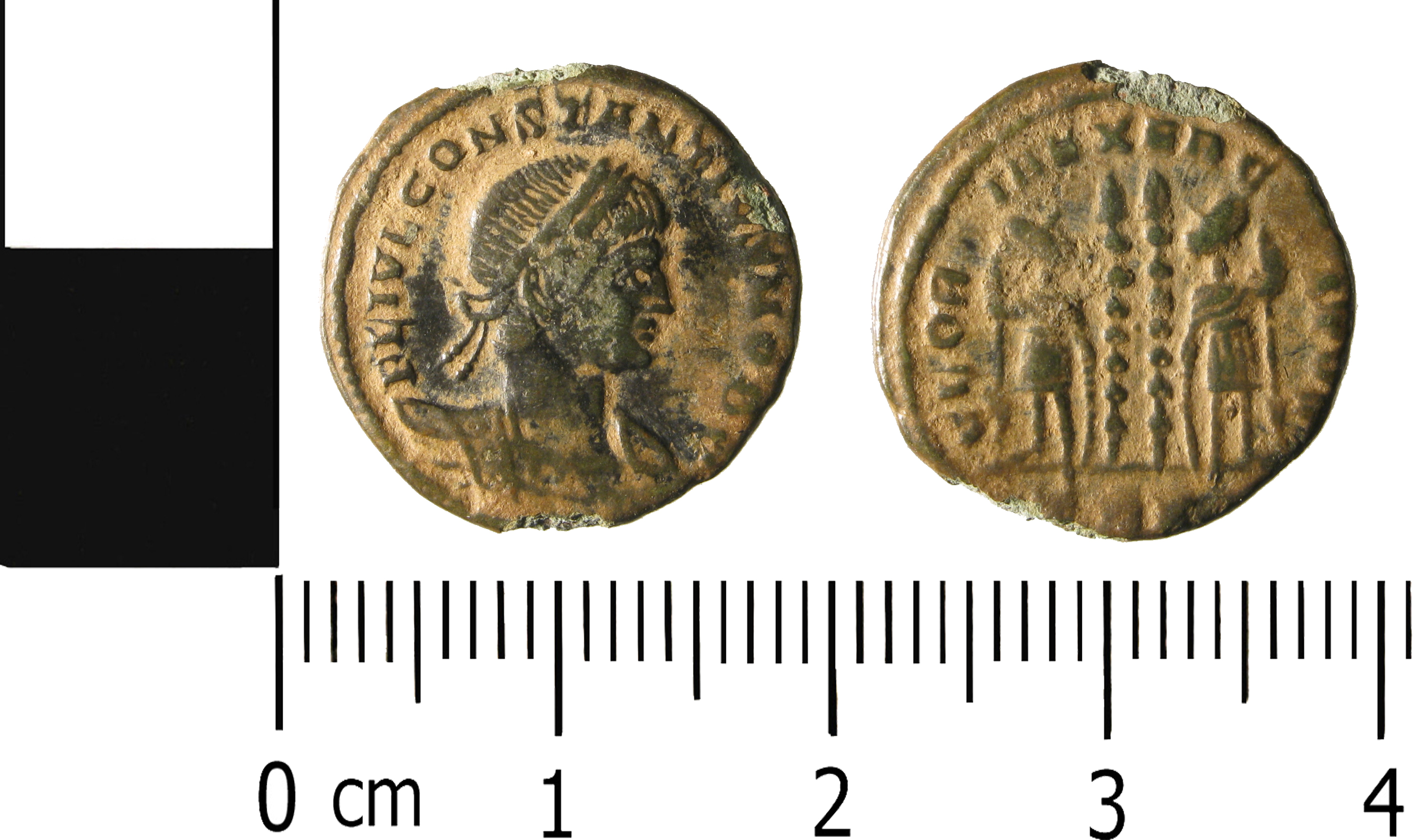 A copper-alloy Roman nummus of Constantius II, dating from AD 330 to 335, first GLORIA EXERCITVS issue, minted at Trier, Reece period 17. Obverse legend FL IVL CONSTANTIVS NOB C. Reverse legend GLORIA EXERCITVS .